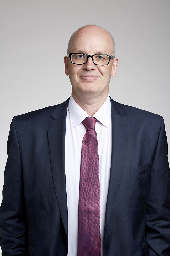 Edward Charles Holmes FRS FAA (born 1965, UK) is an evolutionary biologist and virologist, and since 2012 an NHMRC Australia Fellow and Professor at the University of Sydney. Attribution: The Royal Society